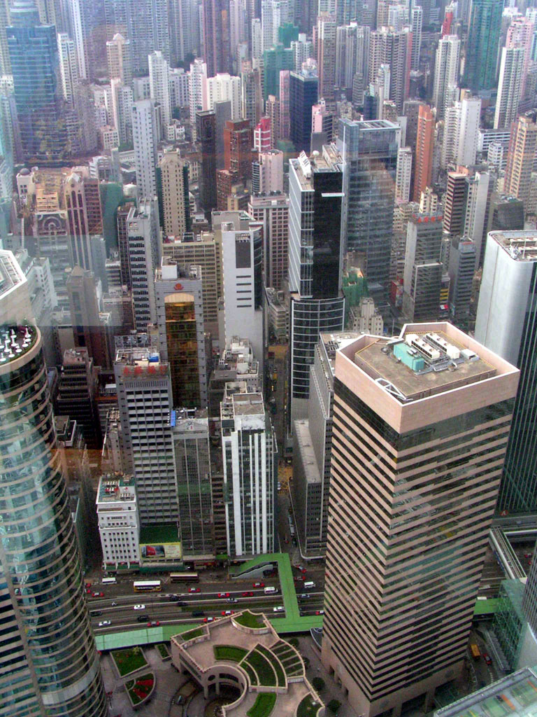 Hong Kong Central skycrapers seen from 55th floor of Two International Finance Center